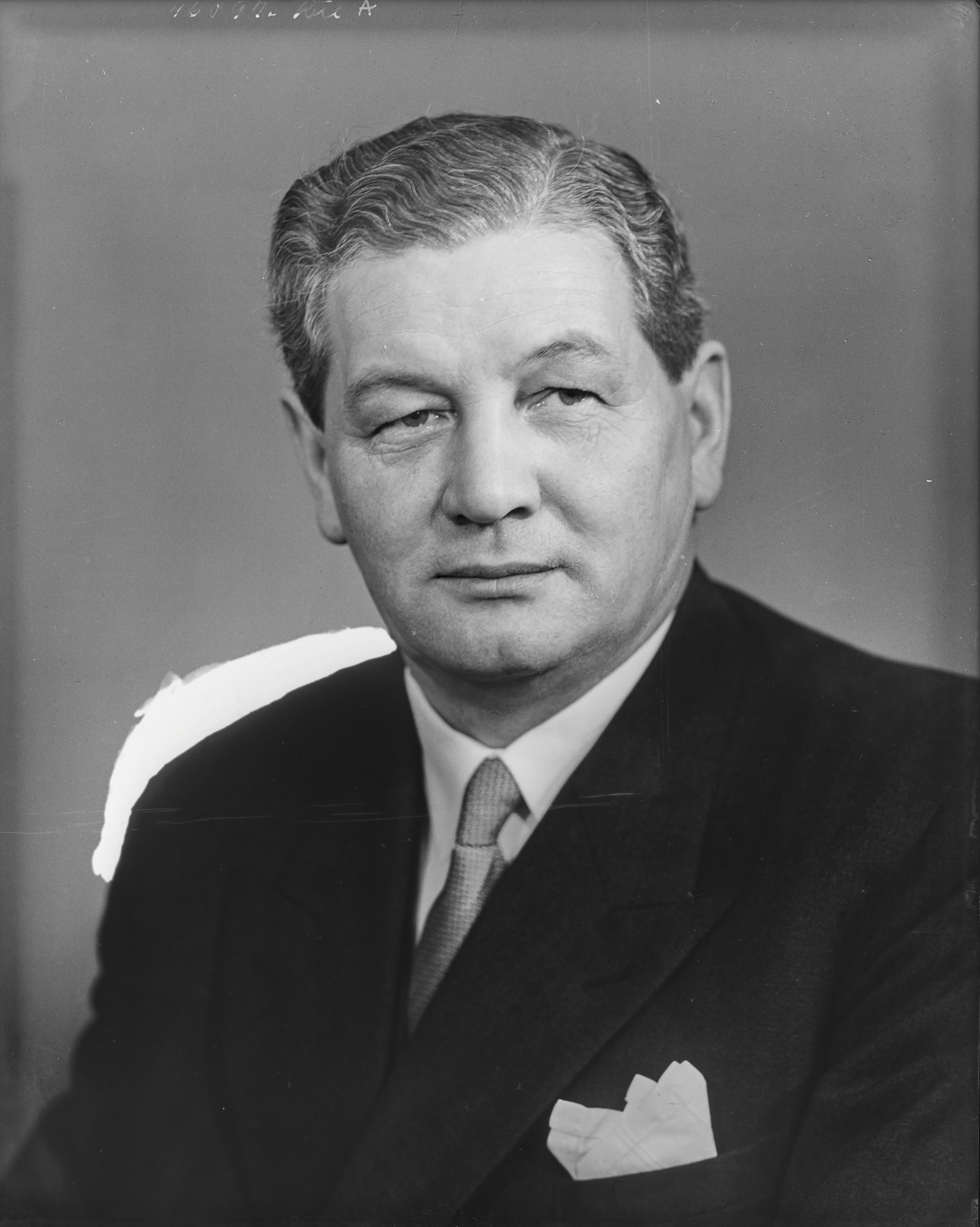 Erik Eriksen (November 20, 1902 - October 7, 1972) is a former Prime Minister of Denmark (1950 - 1953)